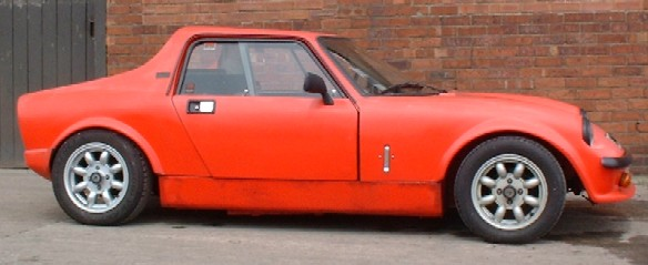 A 1985 GTM Coupe. (1-5)